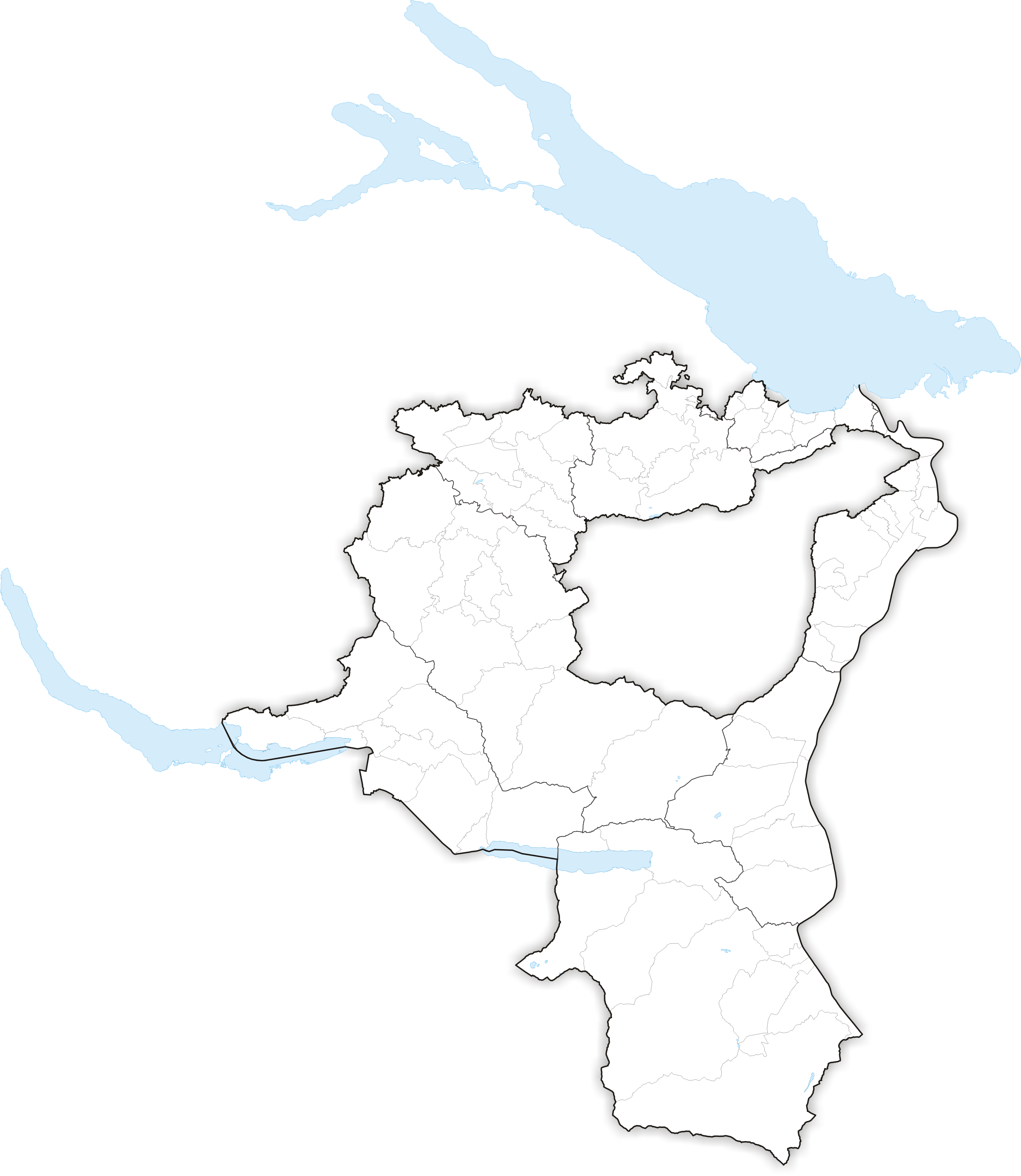 Municipalities in Canton St. Gallen